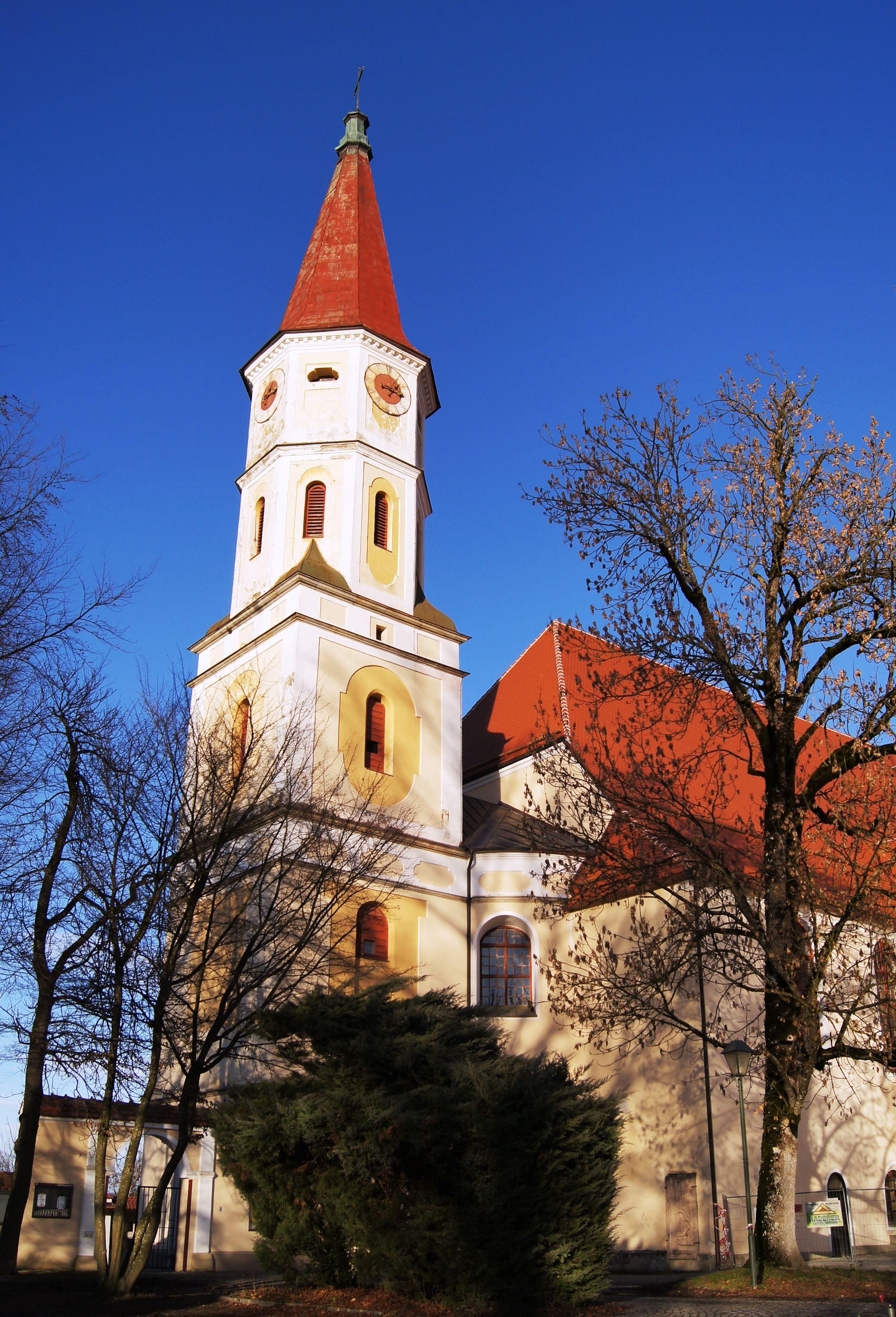 Parish Church in Braunau-Ranshofen